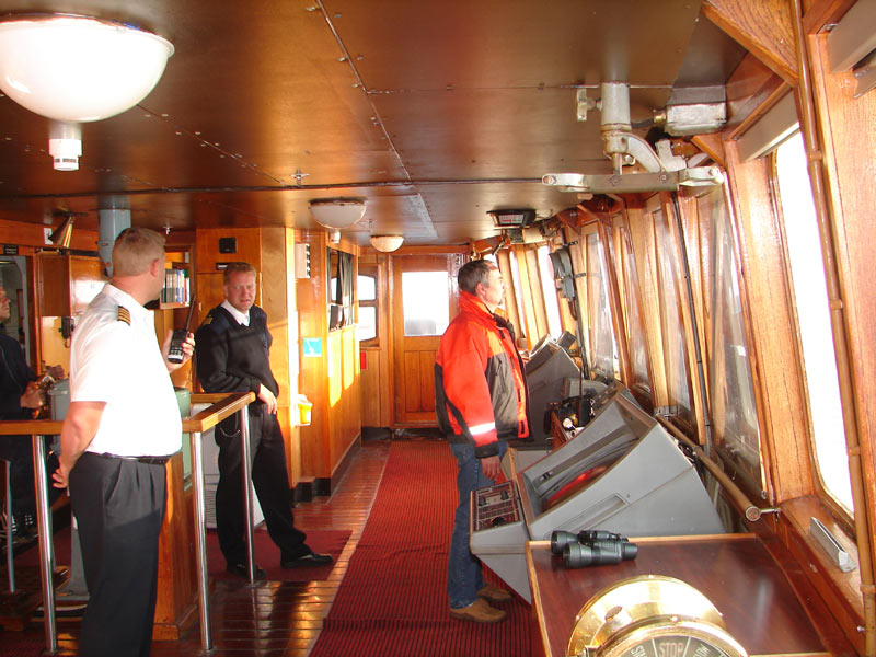 The Master and the pilot of the Kristina Regina in the wheelhouse.